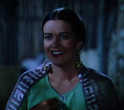 Rosemary DeCamp in Jungle Book - cropped screenshot